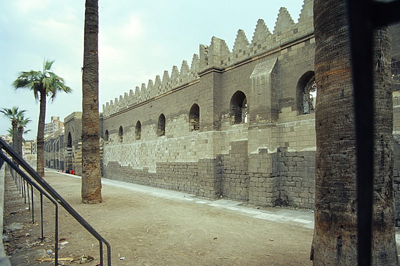 Outer wall of the Mosque of Baybars I., el-Zahir/el-Dahir, cairo, Egypt